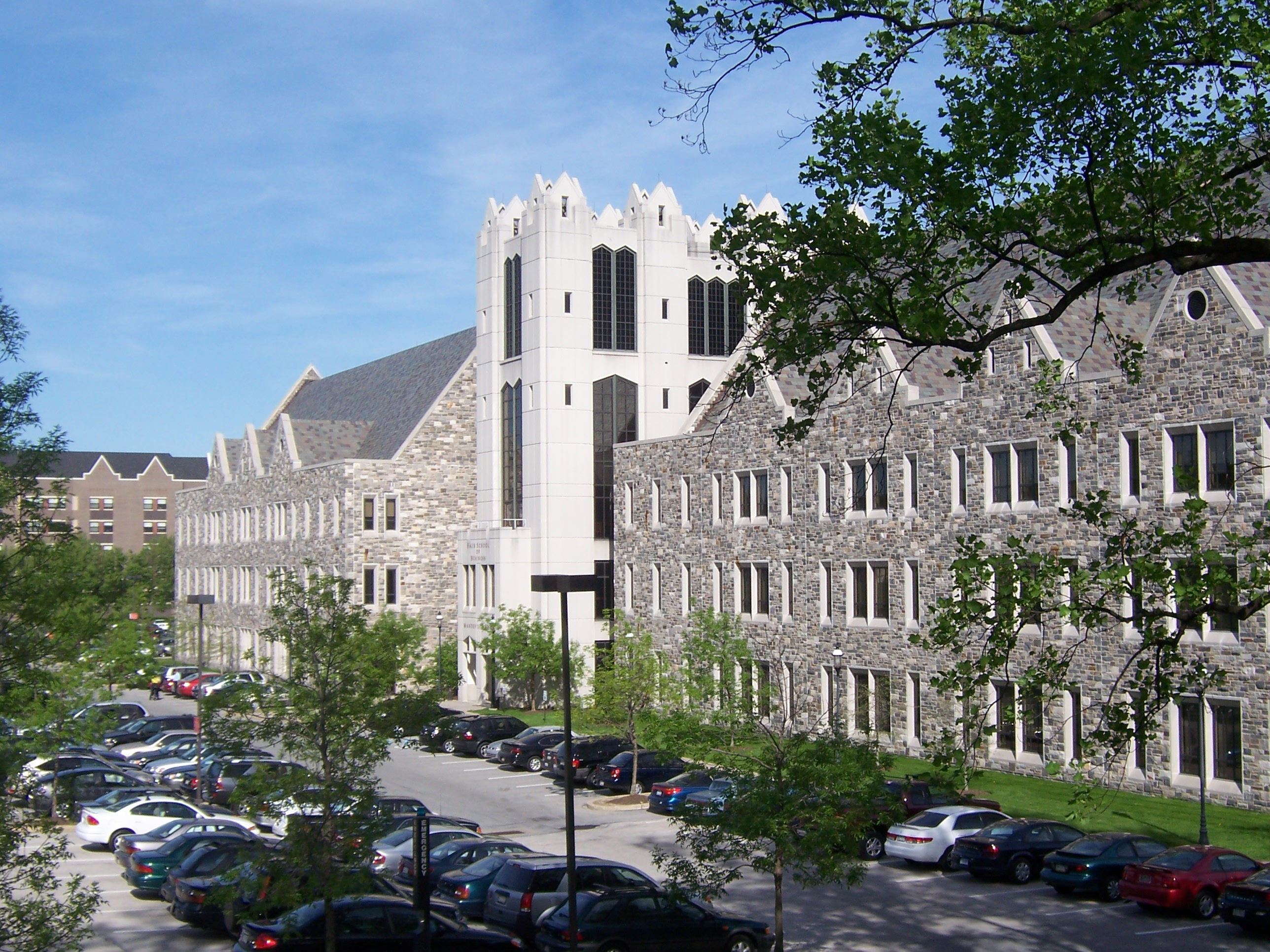 Mandeville Hall, home to the Haub School of Business at Saint Joseph's University